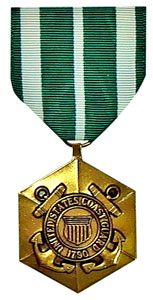 Coast Guard Commendation Medal